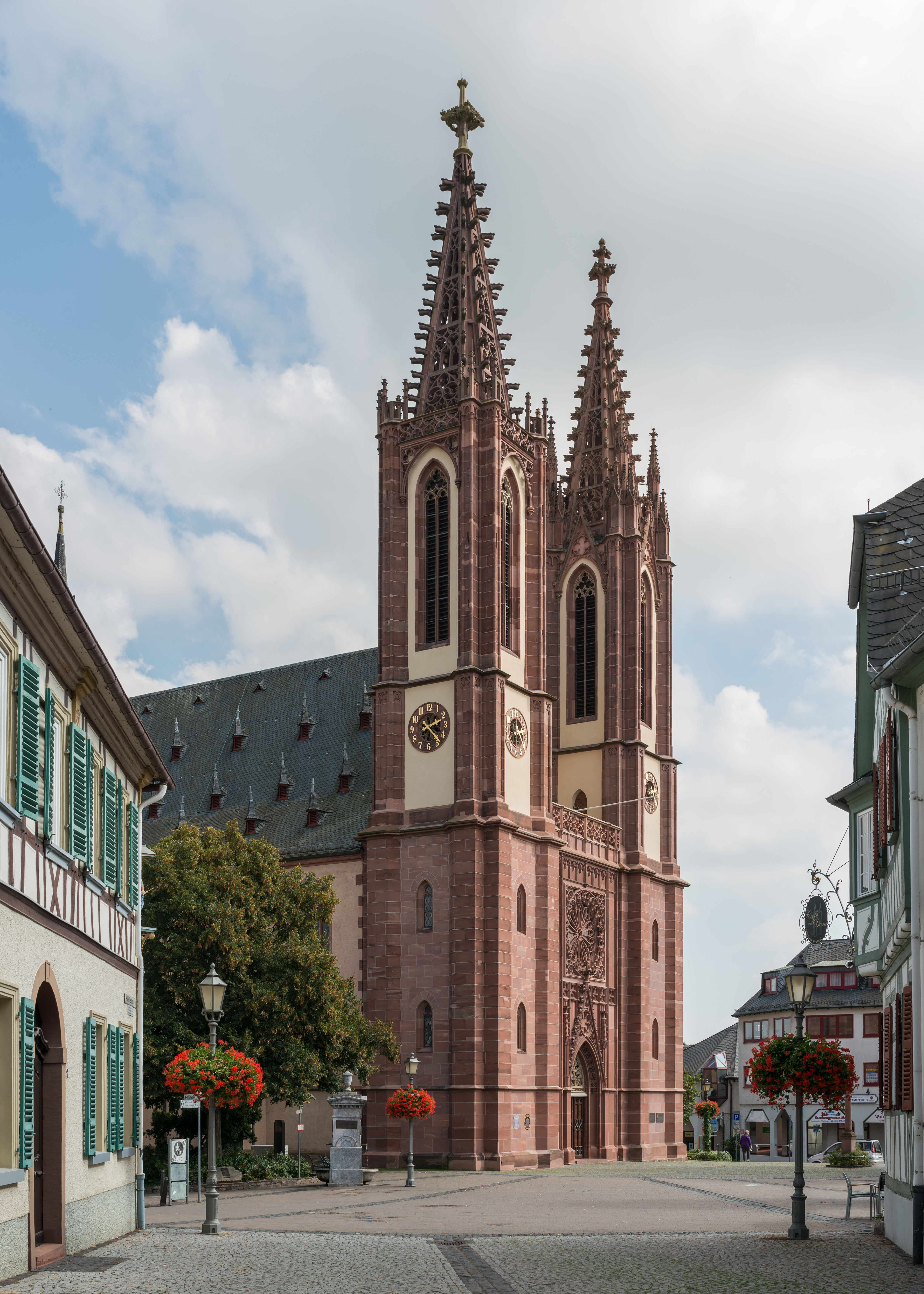 The Rheingauer Dom as seen from Northwest